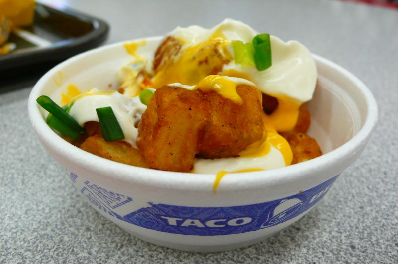 Fiesta Potatoes dish at Taco Bell fast-food restaurant